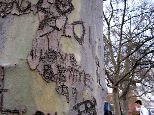 Graffiti on a tree in London near the embankment tube station.